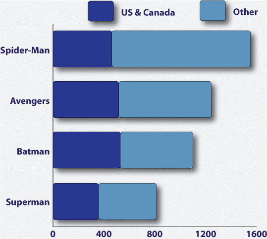 Retail Sales of Licensed Merchandise Based on $100 Million+ Entertainment/Character Properties, U.S./Canada, 2016 Notes: Figures are for retail sales of all licensed merchandise for calendar years 2015–2016. Figures in Millions